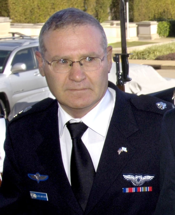 Defense Attaché at the Israeli Embassy Maj. Gen. Amos Yadlin.